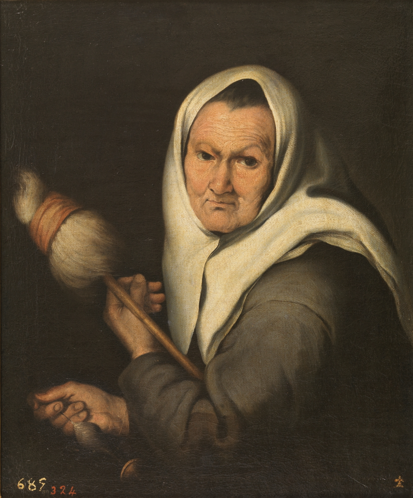 The work depicts an old woman spinning with a distaff, and is an anonymous 17th-century copy of the painting Old Woman with a Distaff (1642) by Bartolomé Esteban Murillo in the collection of Stourhead, Wiltshire, England, UK: see Stourhead: Illustrated List of Pictures and Sculpture[1], [Swindon, Wiltshire]: National Trust, 2010, archived from the original on 24 December 2017, page 29.